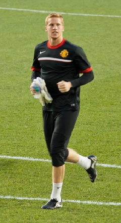 Ben Amos training for Manchester United on July 27, 2011.